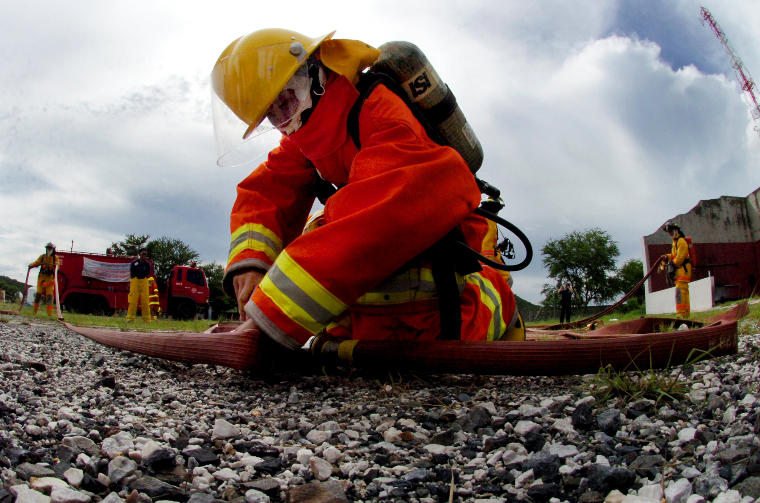 A firefighter from the Port of Laem Chabang in Pattaya, Thailand, secures a hose fitting during a training exercise near the port, Monday, May 19. Members of the Washington National Guard have been training Thai first responders, to include fire fighters from Laem Chabang, on a tasks such as search and rescue, mass casualty scenarios and incident command and control as part of the National Guard's State Partnership Program.